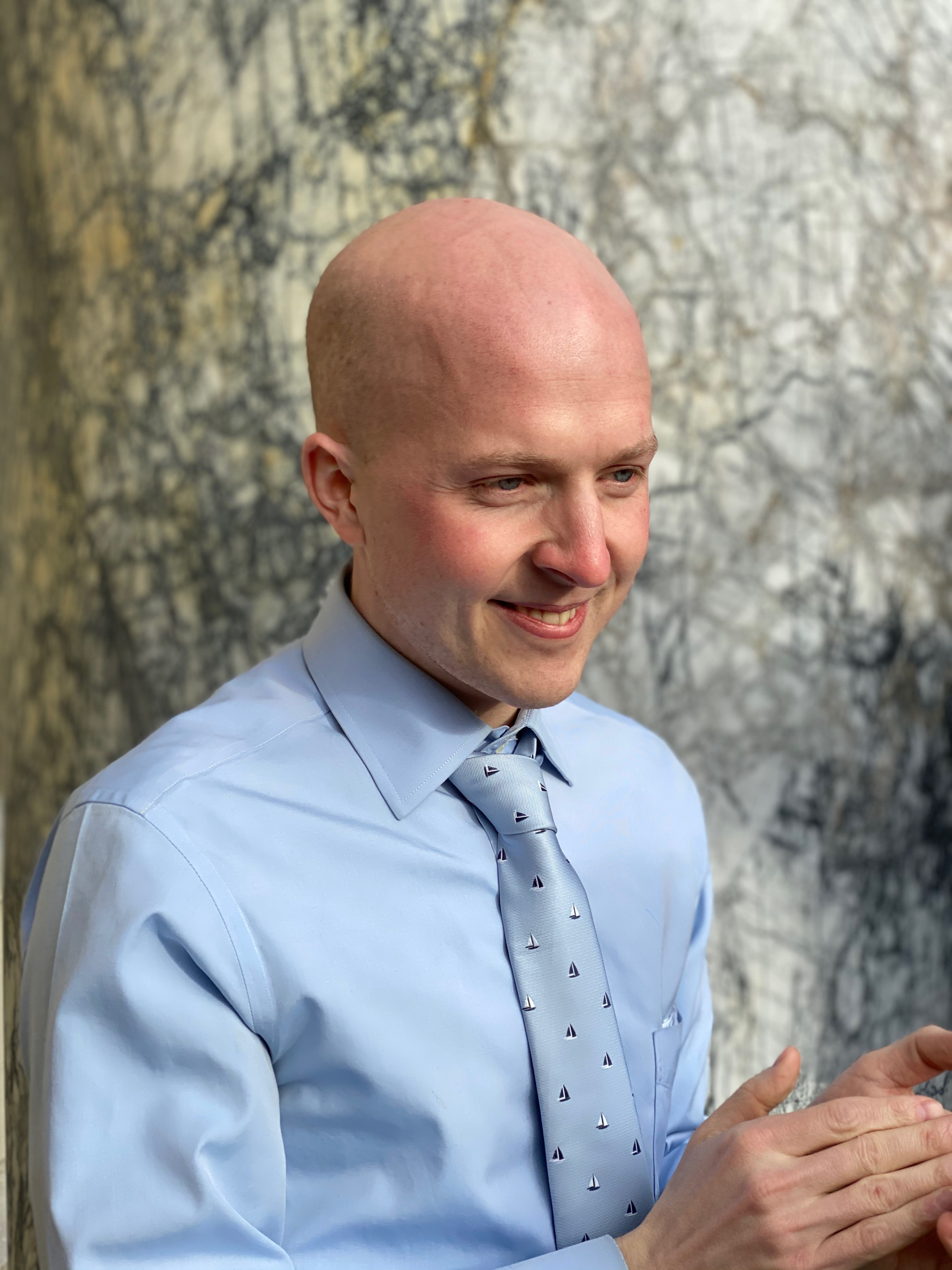 Representative Jonathan Kreiss-Tomkins at the State of Alaska Capitol - Rally 'Our Highway Our Lifeline', Juneau, Alaska.